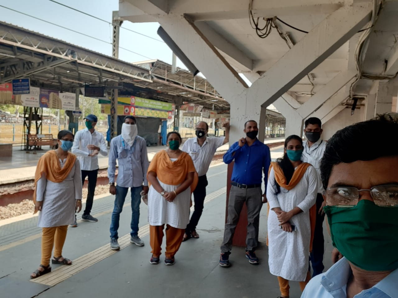 Front Line Staff: Western Railways Corona Warriors